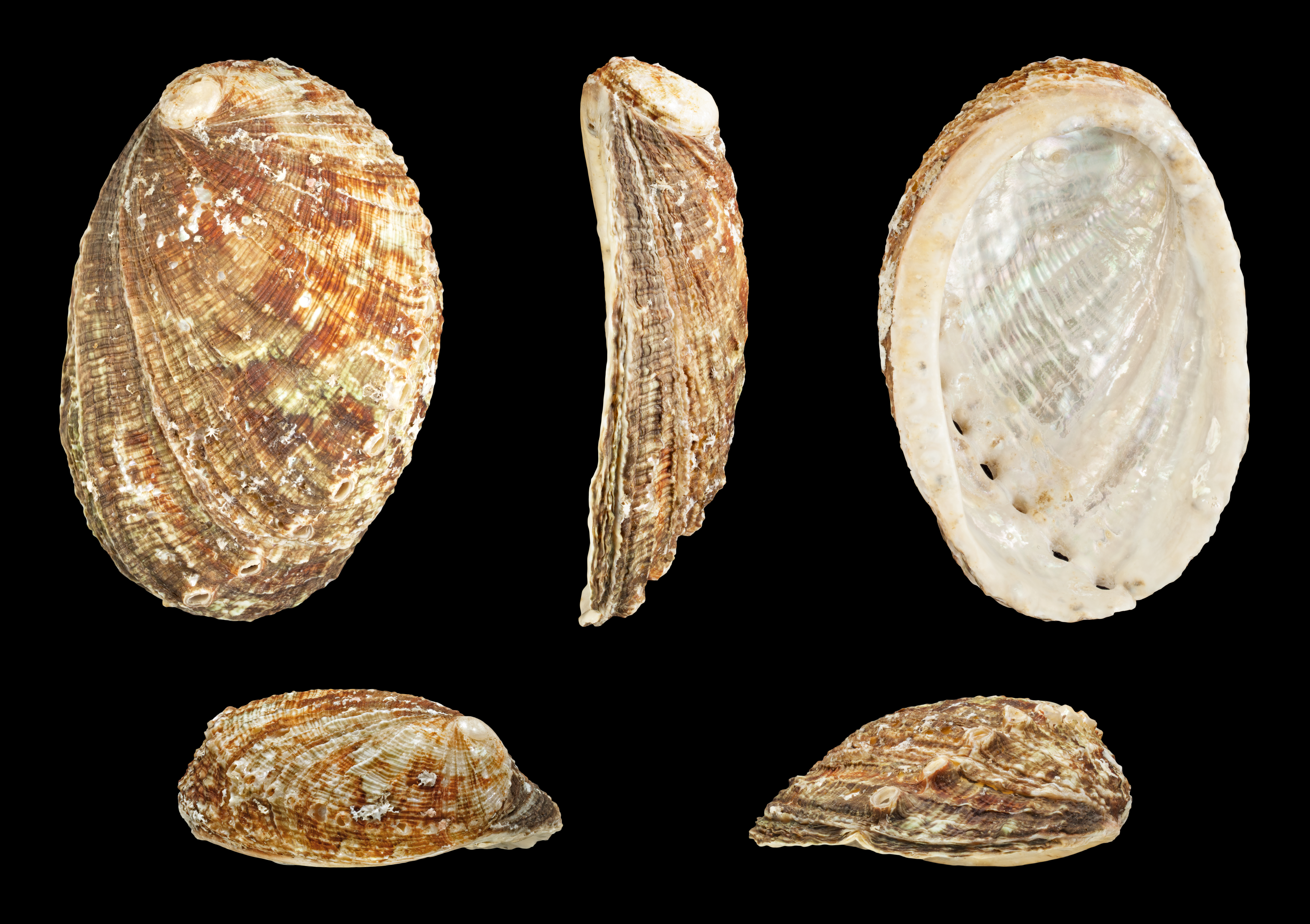 Haliotis diversicolor squamata Reeve, 1846, Scaly Australian Abalone; Length 8.3 cm; Originating from Indonesia. Shell of own collection, therefore not geocoded.